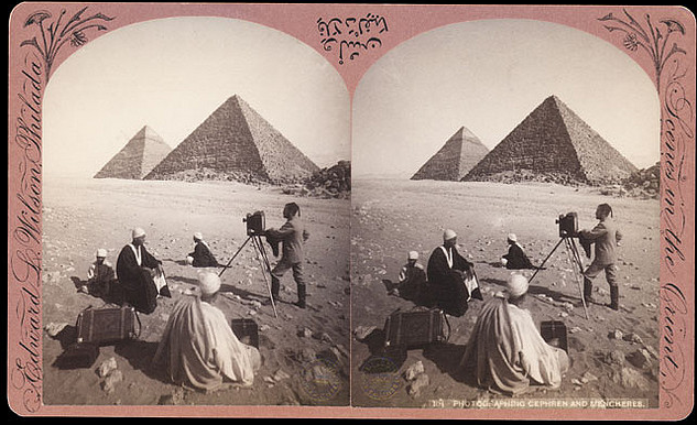 stereo card entitled "Photographing Cephren and Mencheres" from the series "Scenes in the Orient". Depicts the photographic party of Edward L. Wilson in Egypt.